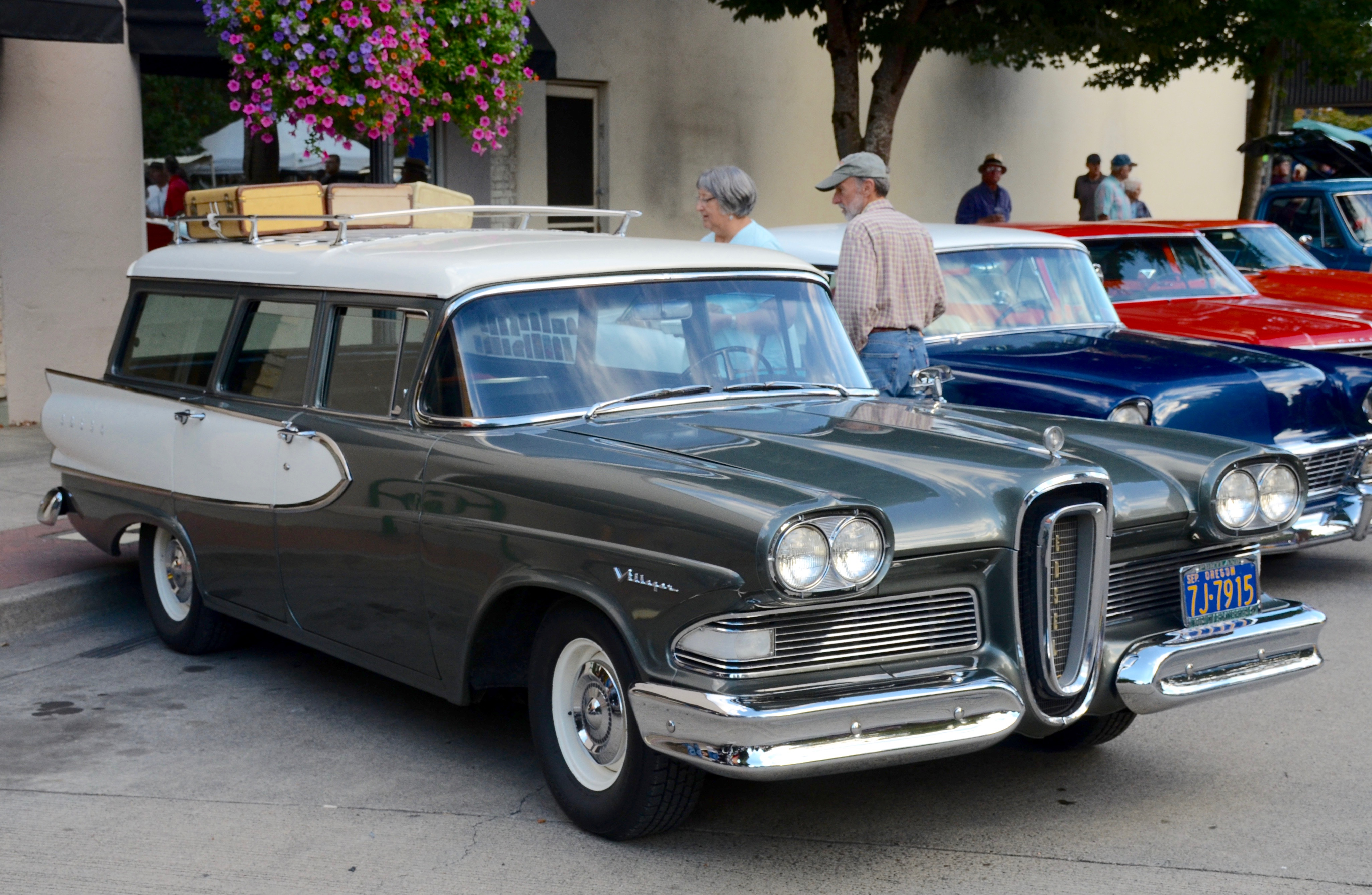 A 1958 Edsel Villager in the Spruce Green Metallic and White paint scheme, on display on 2nd Avenue in downtown Hillsboro, Oregon, at the Tuesday Market that is held weekly during summer months - and always includes vintage cars on display.